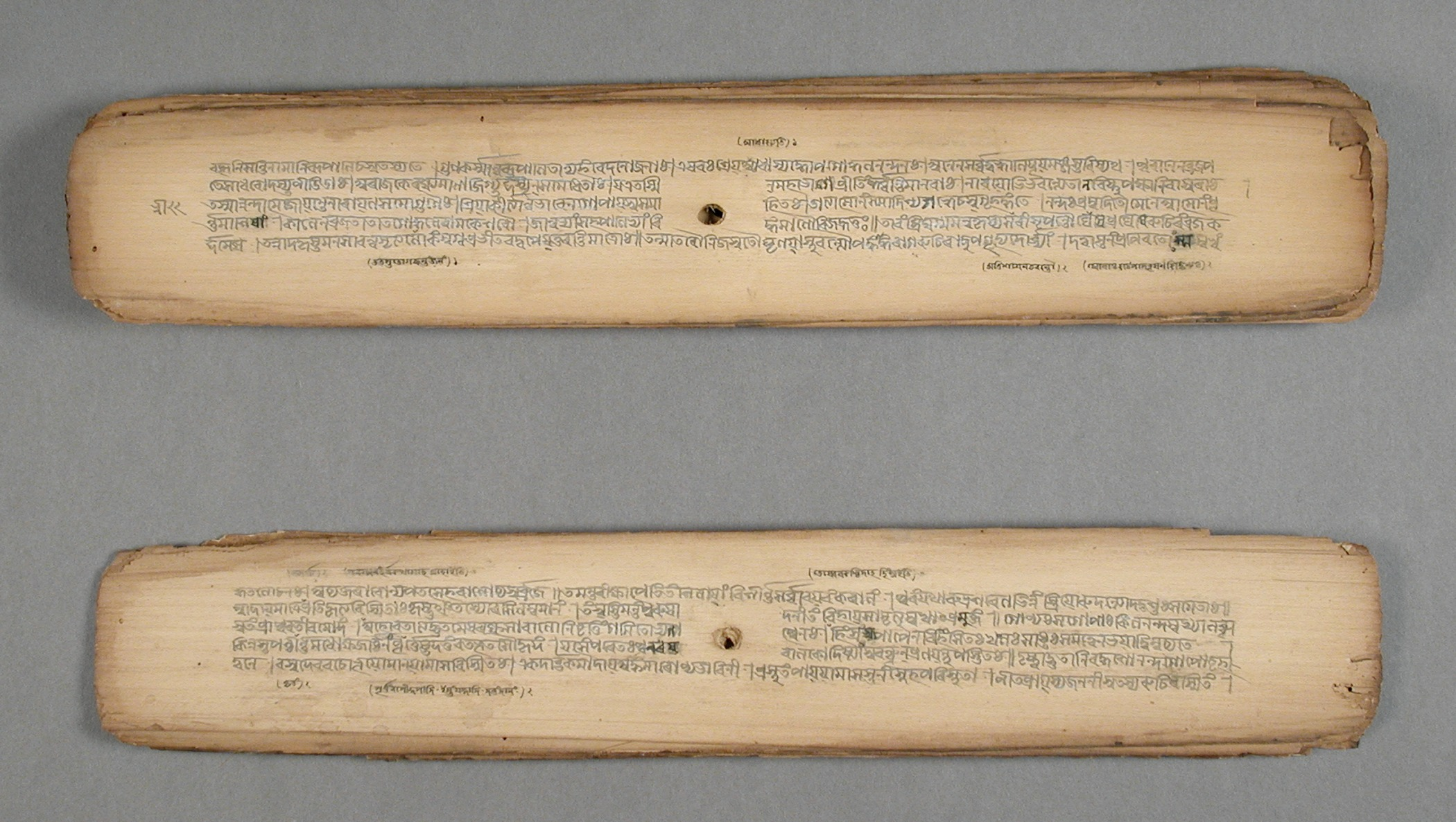 India, West Bengal, 16th century (?) Manuscripts Ink on palm leaf 2 3/4 x 14 x 5/8 in. (6.99 x 35.56 x 1.59 cm) Gift of Mr. and Mrs. H. Robert Slusser (M.88.134.4) South and Southeast Asian Art